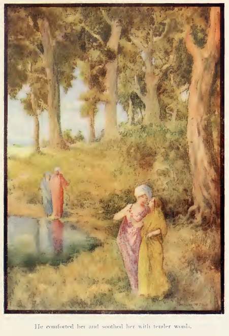 Illustration by Perham W. Nahl (1869-1935) from Arthur W. Ryder's Twenty-Two Goblins (1917)